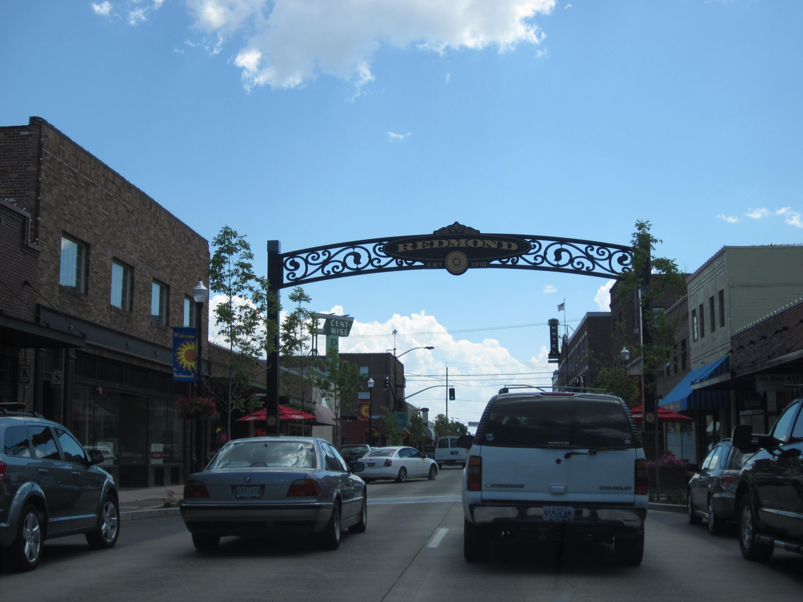 Business Highway 97 in Redmond, Oregon, a city in Deschutes County with a population of about 25,000